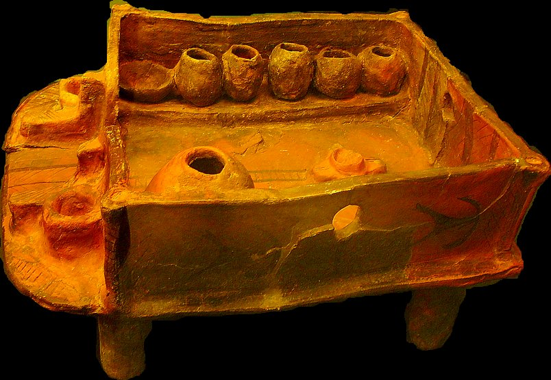 Pottery figure representing a Trypillian house. Exposed at National Museum of Warsaw from April 15th to June 29th 2008 on a temporary exhibition titled "Ukraine to the world. Treasures of Ukraine from the Platar collection"